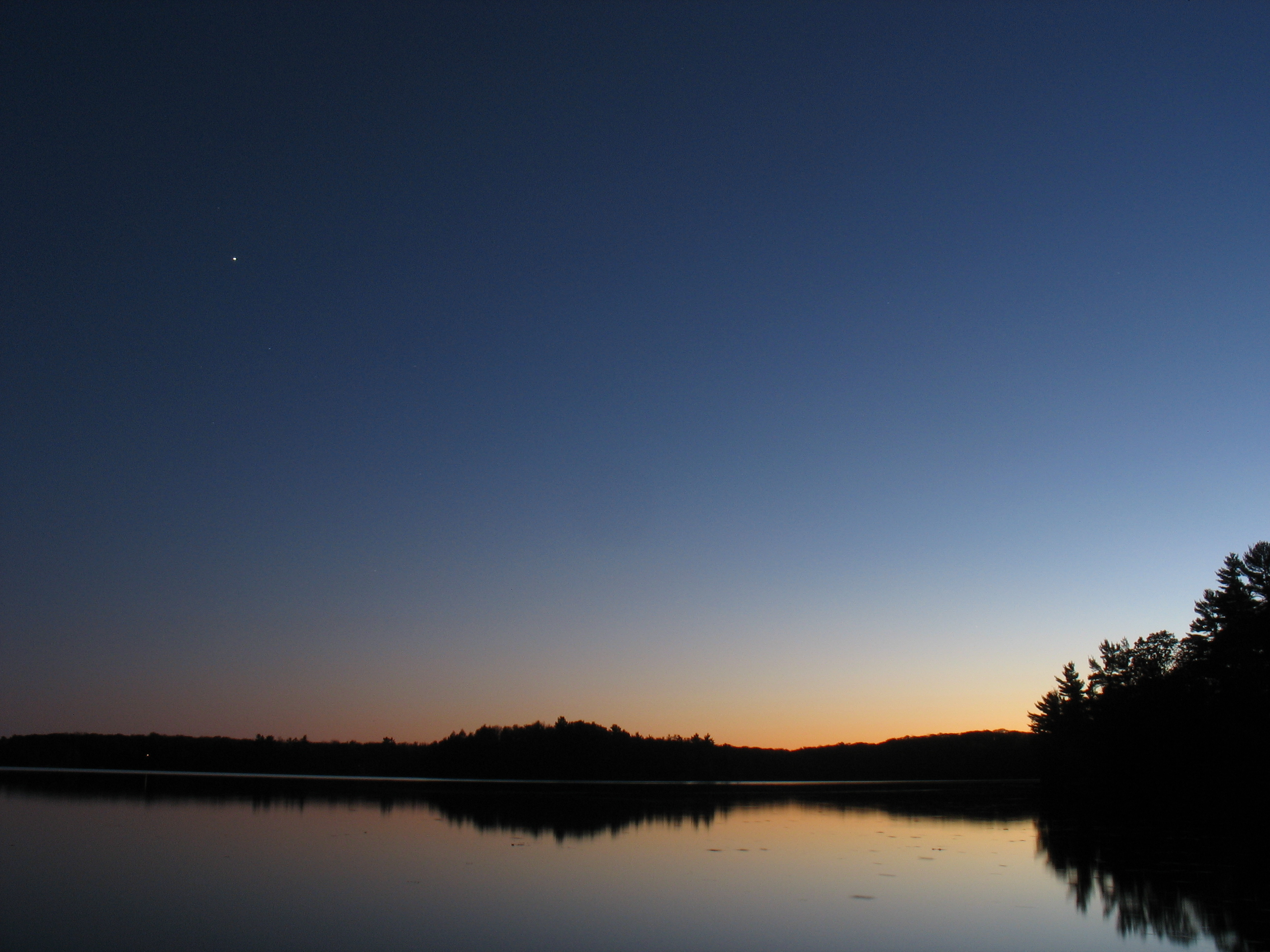 Venus over Otter Lake, from Goddard Bay.JPG